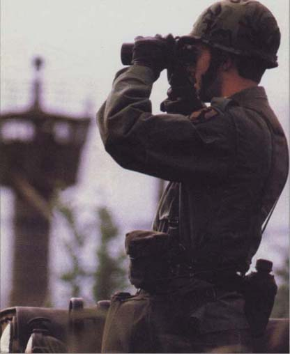 Image depicts a soldier of the U.S. 11th Armored Cavalry Regiment on duty along the inter-zone German frontier during the Cold War.